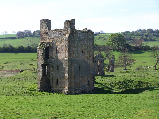 Ravensworth Castle, near to Ravensworth, North Yorkshire, Great Britain.